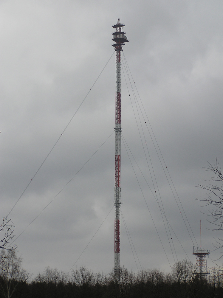 Photo of the mast